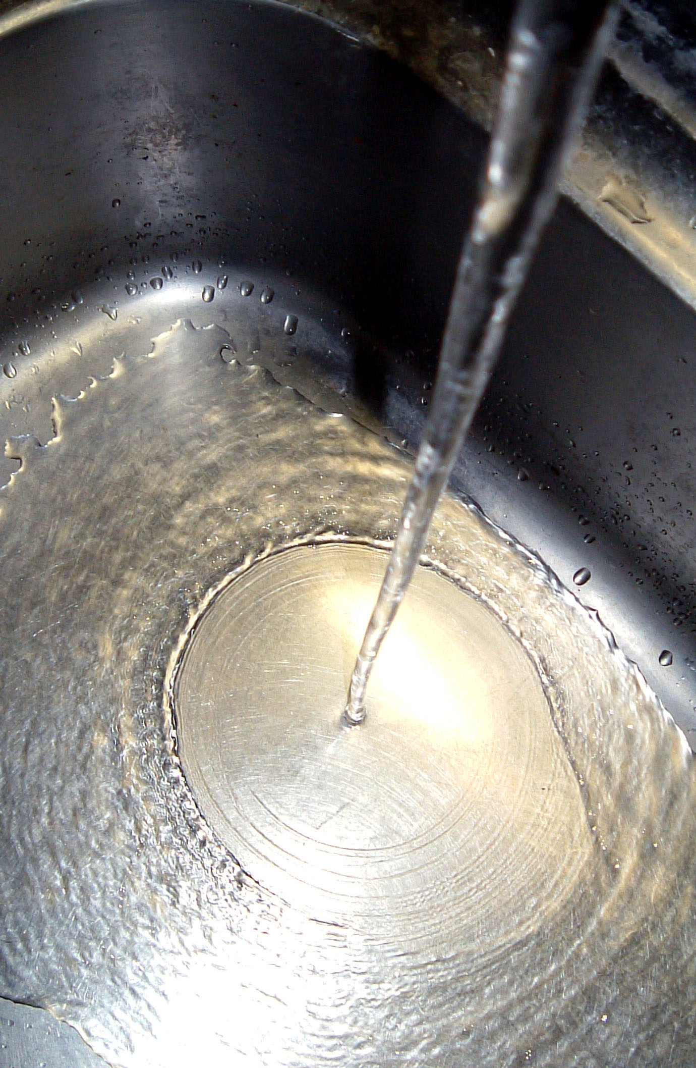 circular hydraulic jump in a sink